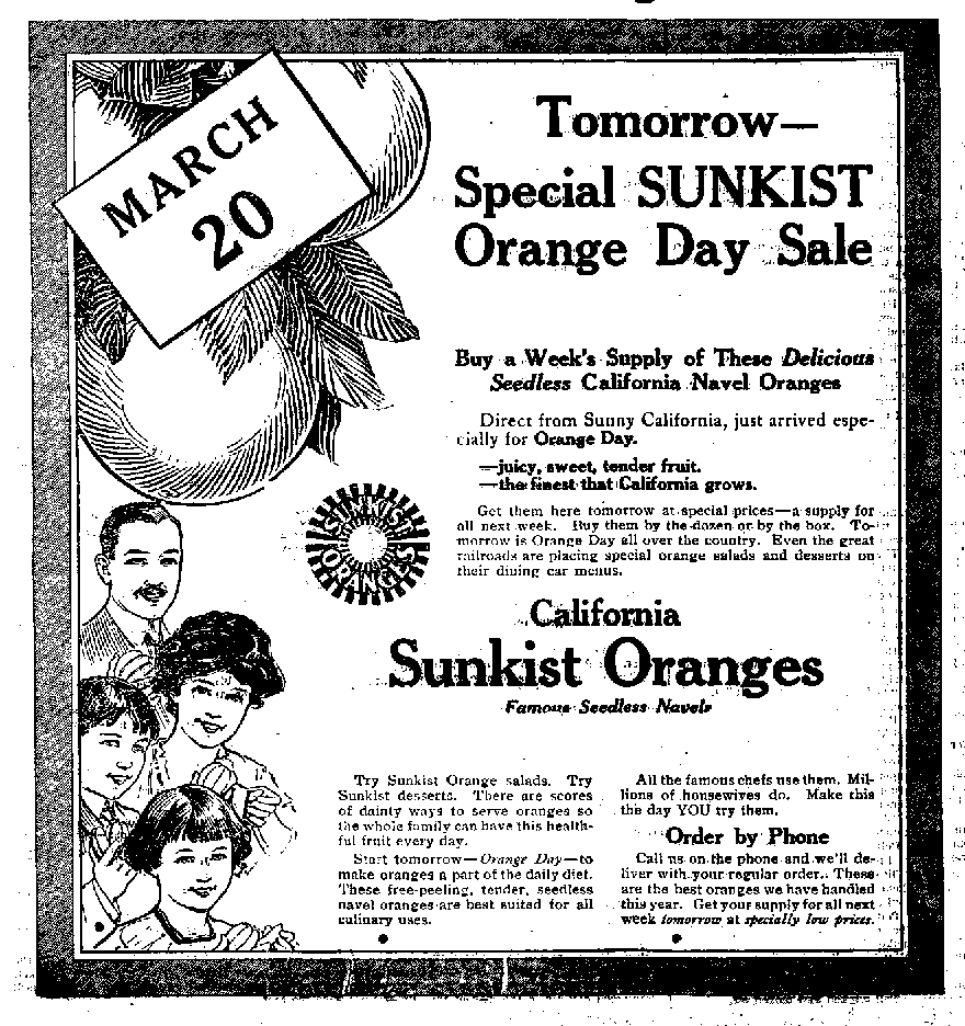 Minnesota newspaper ad for Sunkist Oranges.